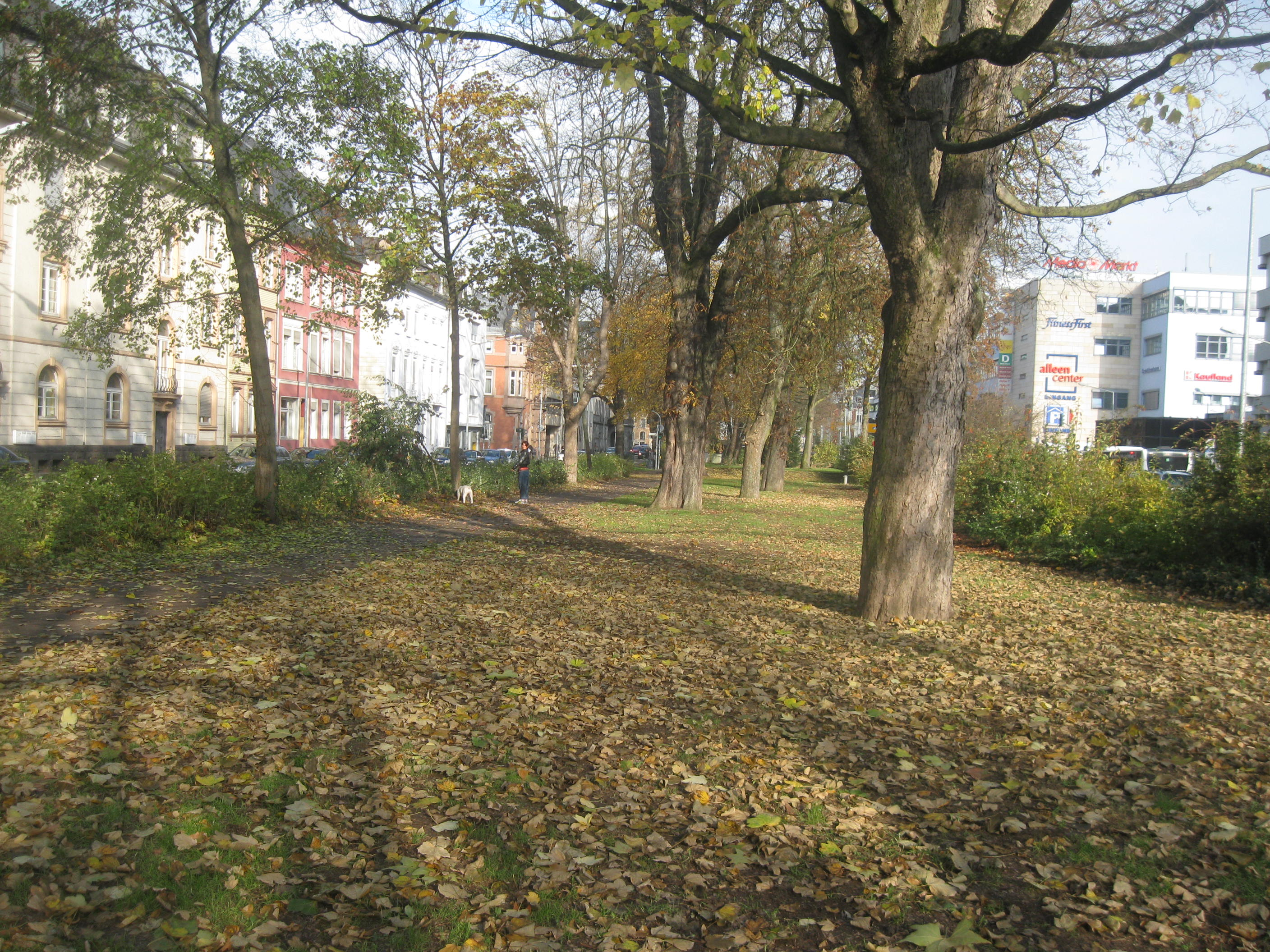 Ostallee north of the Mustorstraße/Gartenfeldstraße crossing